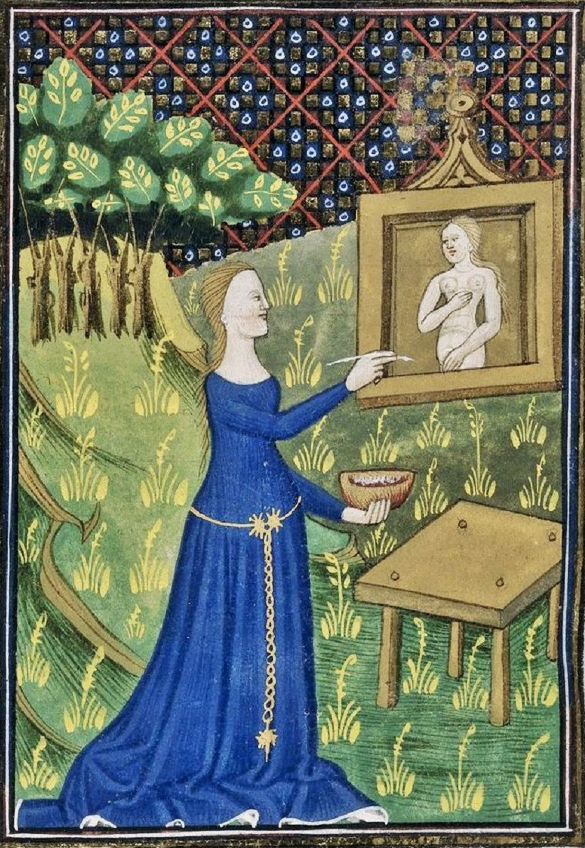 Detail of a miniature of Ancient Greek artist Thamyris (Timarete) painting her picture of the goddess Diana, N. France,(Rouen) . The original is in the British Library collection ID 43537. Royal 16 G V f. 68v